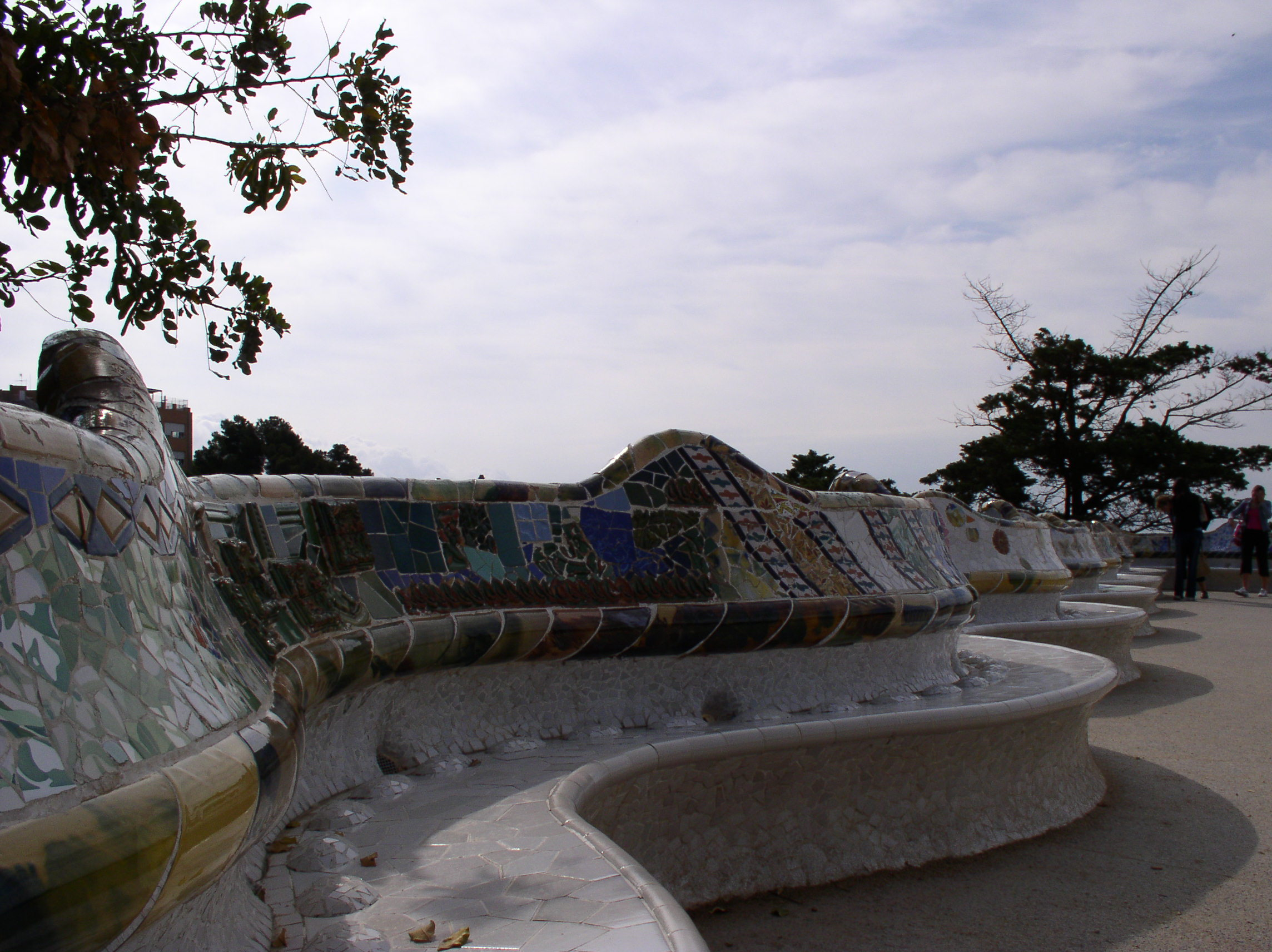 Serpentine bench in Parc Güell, Barcelona.